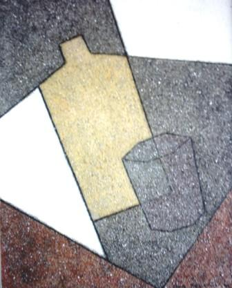 "Drunken sailor" by Erik Pevernagie, Oil on canvas, ( 100 x 80 cm) Life may be an arcane riddle, a play with many complementary acts or an unfinished chronicle with odd sequences. Still and all, whatever we might do or think, let us above all be attentive and expectant, since everyone is waiting for the pieces to fall into place, at one time or another. If we don’t readjust our perception in time, the screeching hinges in our mind may break for want of oil and our viewing angle narrow unremittingly, thus inducing blurred vision, misinterpretation and incomprehension. Many can’t feel anymore the freshness of their emotions that withered alongside the wearisome path of their expectations, as gloom and doom have been creeping into their lives. They may, therefore, find comfort in a friend’s company, a consolation from a particular order: a magic bottle with a life-giving potion. By breaking out the booze, they can have a ball when they feel disheartened. It gives them wings as they can swing on the waves of their fantasy like the drunken sailor is rocking on the waves of the sea in his boat. When we view the picture, we understand that it embodies the visual angle of the drunken sailor who is watching but is not present on the canvas. We realize that we are standing next to the sailor and we feel invited to rock with him and take his identity and his current state of mind. In that way, we can create a relation between the internal space of the painting and the external world. 'Phenomenon : Perception Factual starting point : Bottle and glass